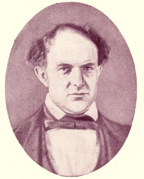 John Barrea Zabriskie